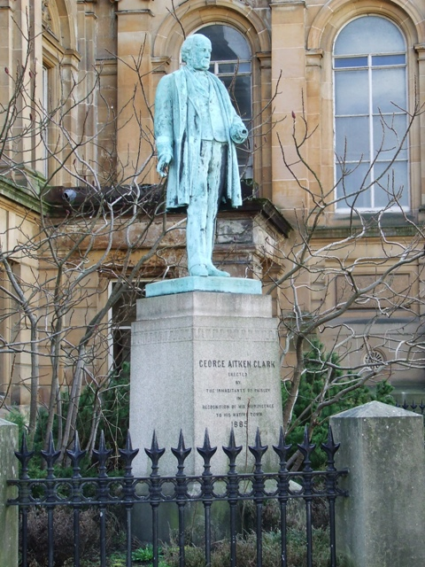 George Aitken Clark Beside Paisley Town Hall which originated in a bequest by Clark and was completed by his family in 1882. The Clarks owned the nearby Anchor thread mills. The inscription reads "GEORGE AITKEN CLARK erected by the inhabitants of Paisley in recognition of his munificence to his native town 1885". Clark was born in 1823 and died in 1873.